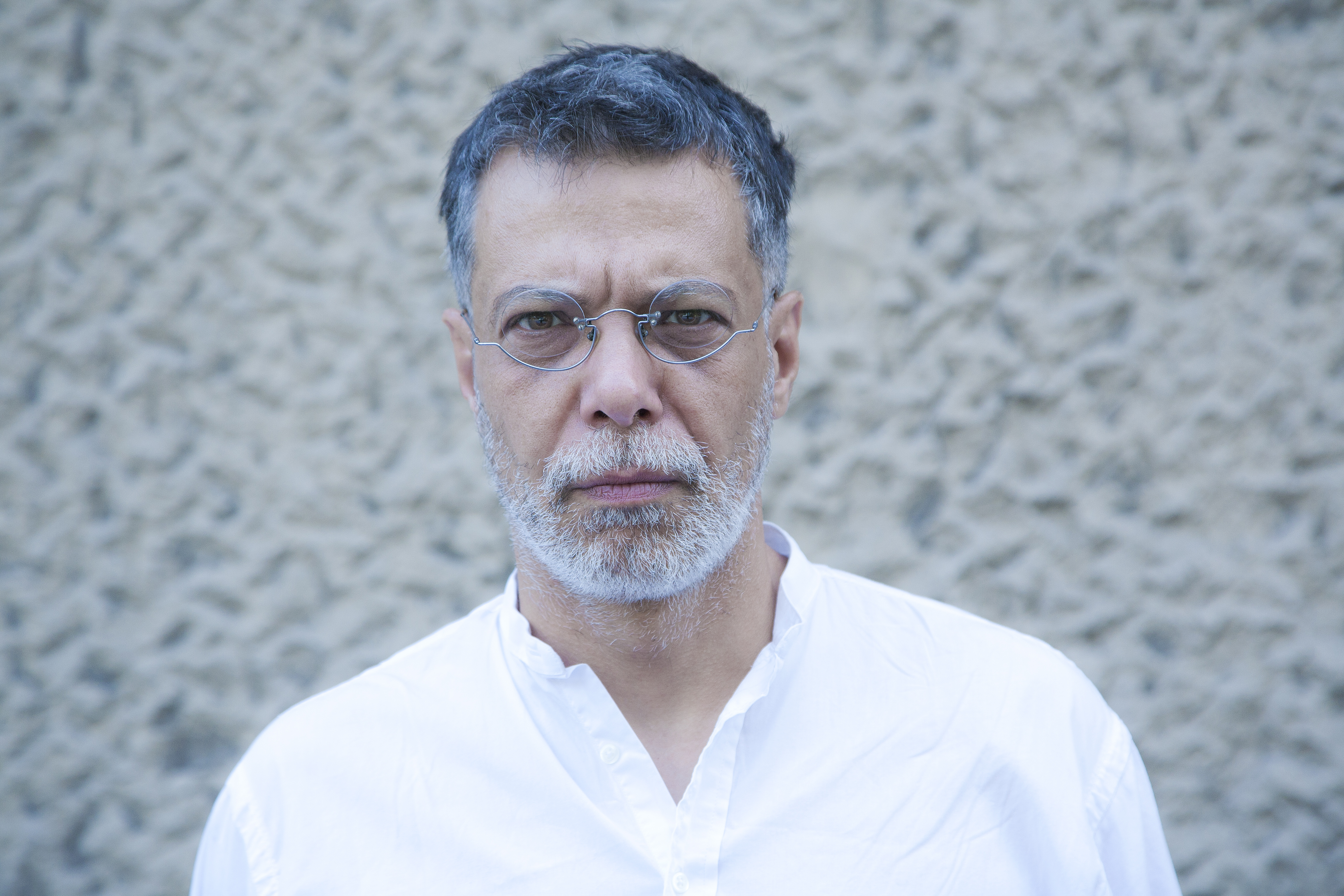 dejan tiago stankovic